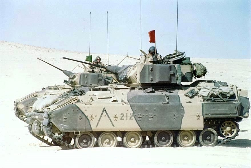 Desert Shield - 2d Squadron, 4th Cavalry (24th Infantry Division) live fire exercise. Two M-3 Bradleys waiting their turn on range, 19 December 1990. XVIII Airborne Corps History Office photograph by SGT Randall M. Yackiel, DS-F-060-05.